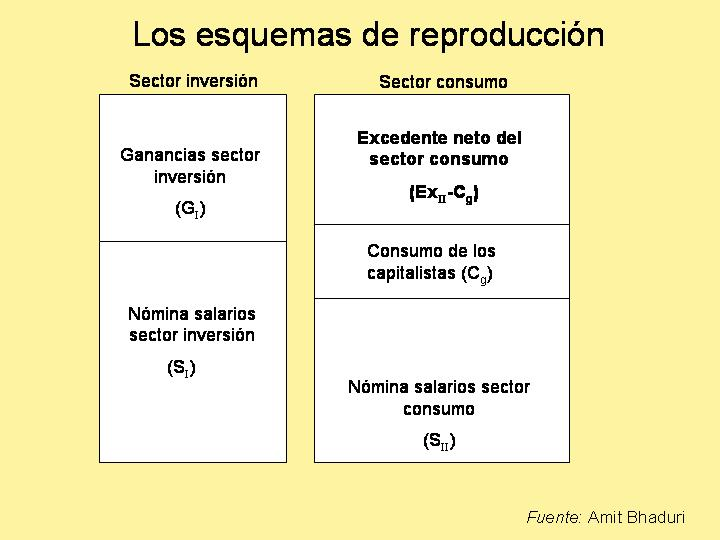 Marxist reproduction schemes [Amit Bhaduri; Macroeconomics: The dynamics of commodity production (1986), Macmillan Education].